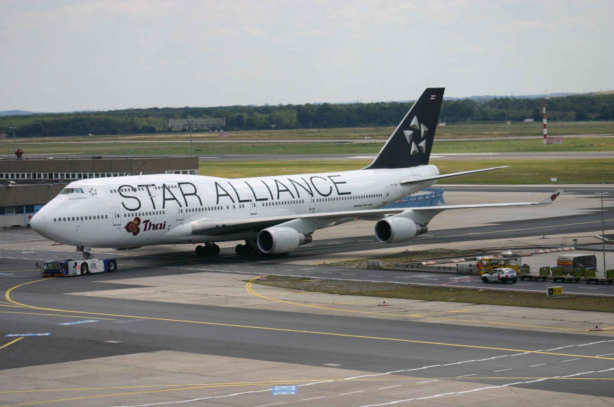 At Frankfurt Main